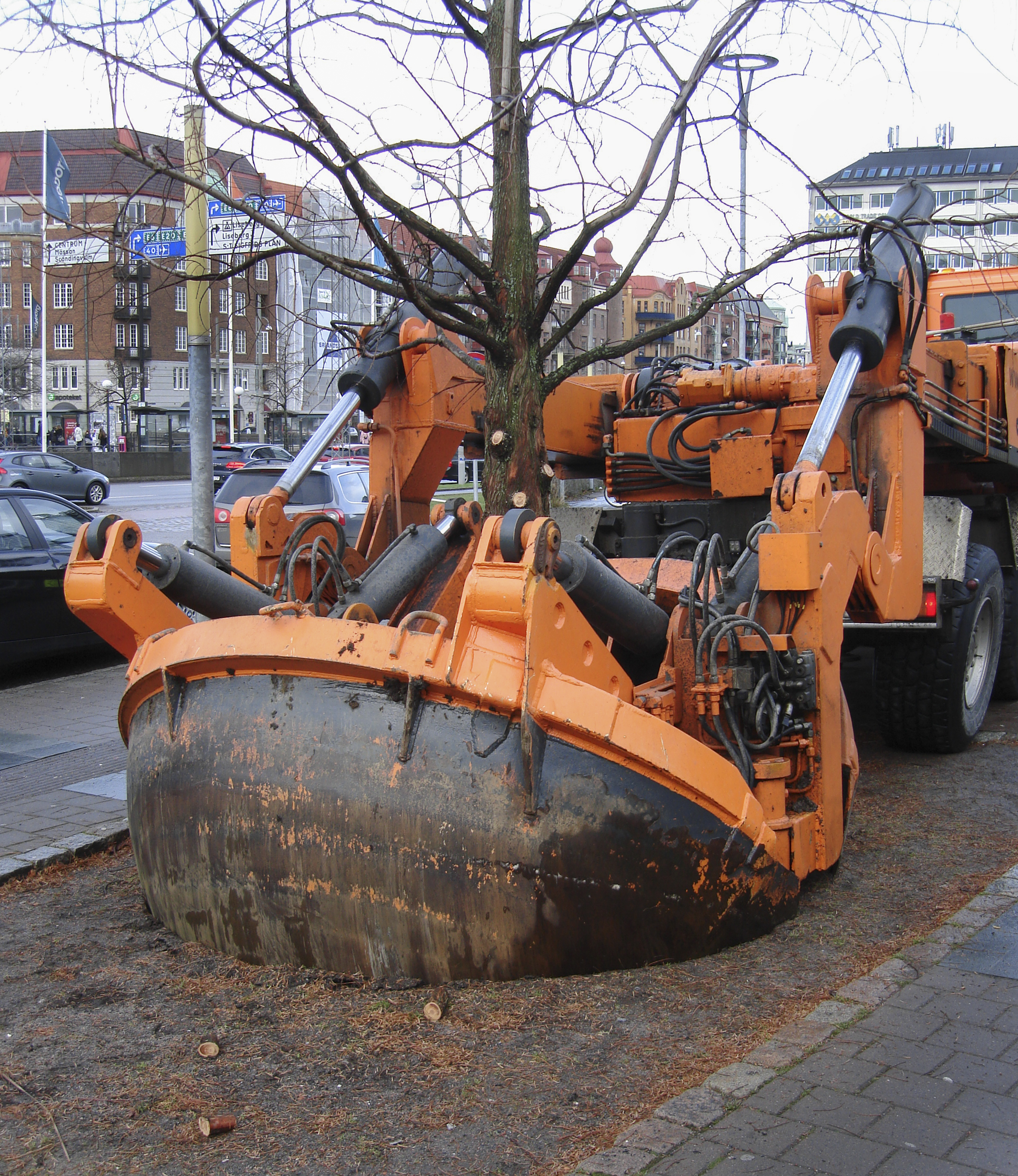 Tree moving at Korsvägen in Gothenburg, Sweden. Preparation for the railway tunnel Västlänken.